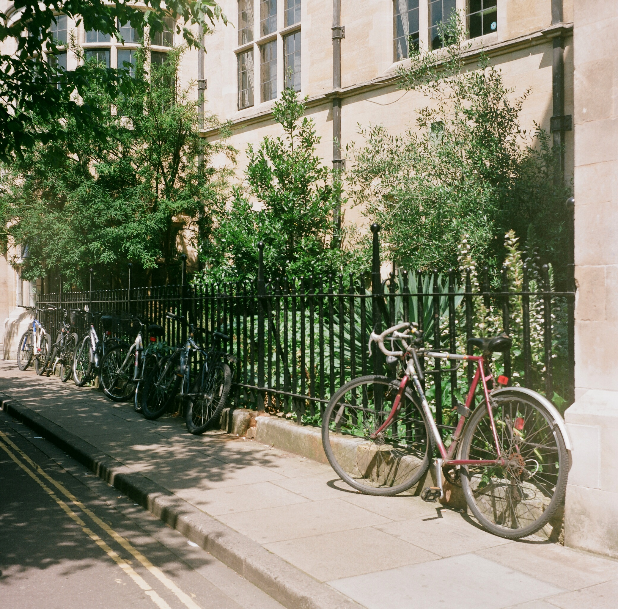 Old botanic garden Long, long ago, the New Museums Site was the home of the University of Cambridge's first botanic garden. Eventually, the University built the Cavendish Laboratory on the site, and the garden moved out to its current site, but this small patch of garden has been planted by the garden's staff with plants representative of the stock of the original botanic garden.